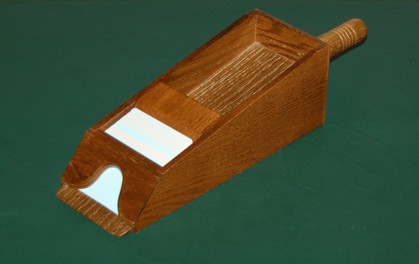 Playing card shoe